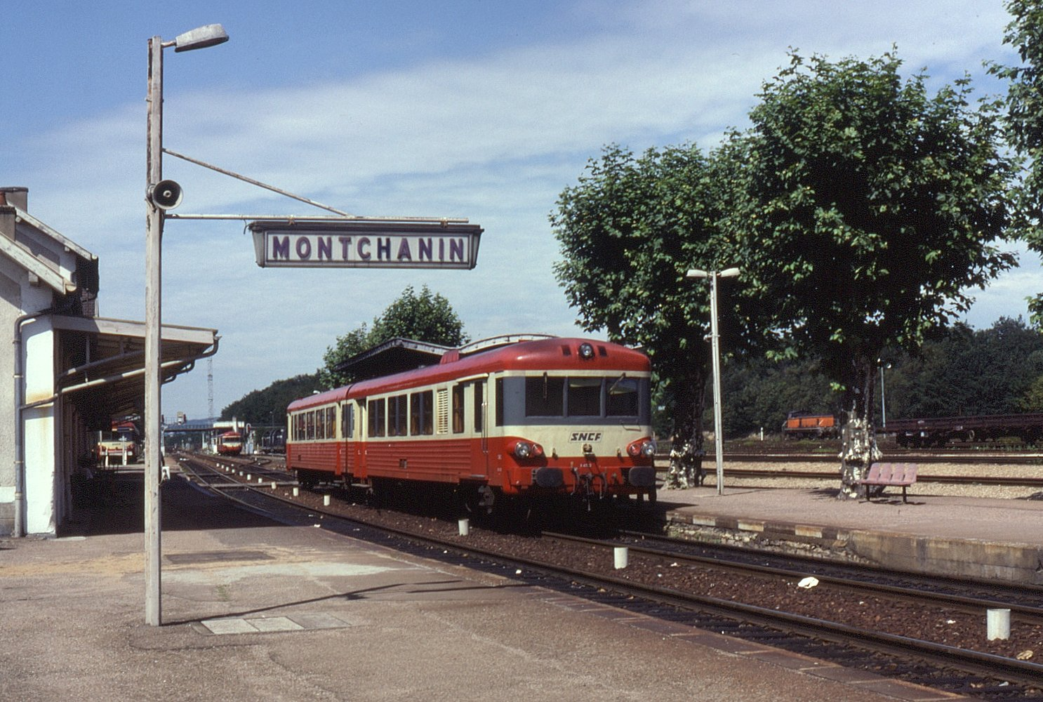 2-car Caravelle DMU, X4716 and trailer, X8713 at Montchanin on 17 August 1992 about to form train 57516,14:35 Montchanin to Paray-le-Monial.